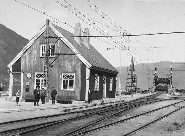 Mæl railway station on Tinnosbanen, with DF Hydro at dock. Tinn, Norway.